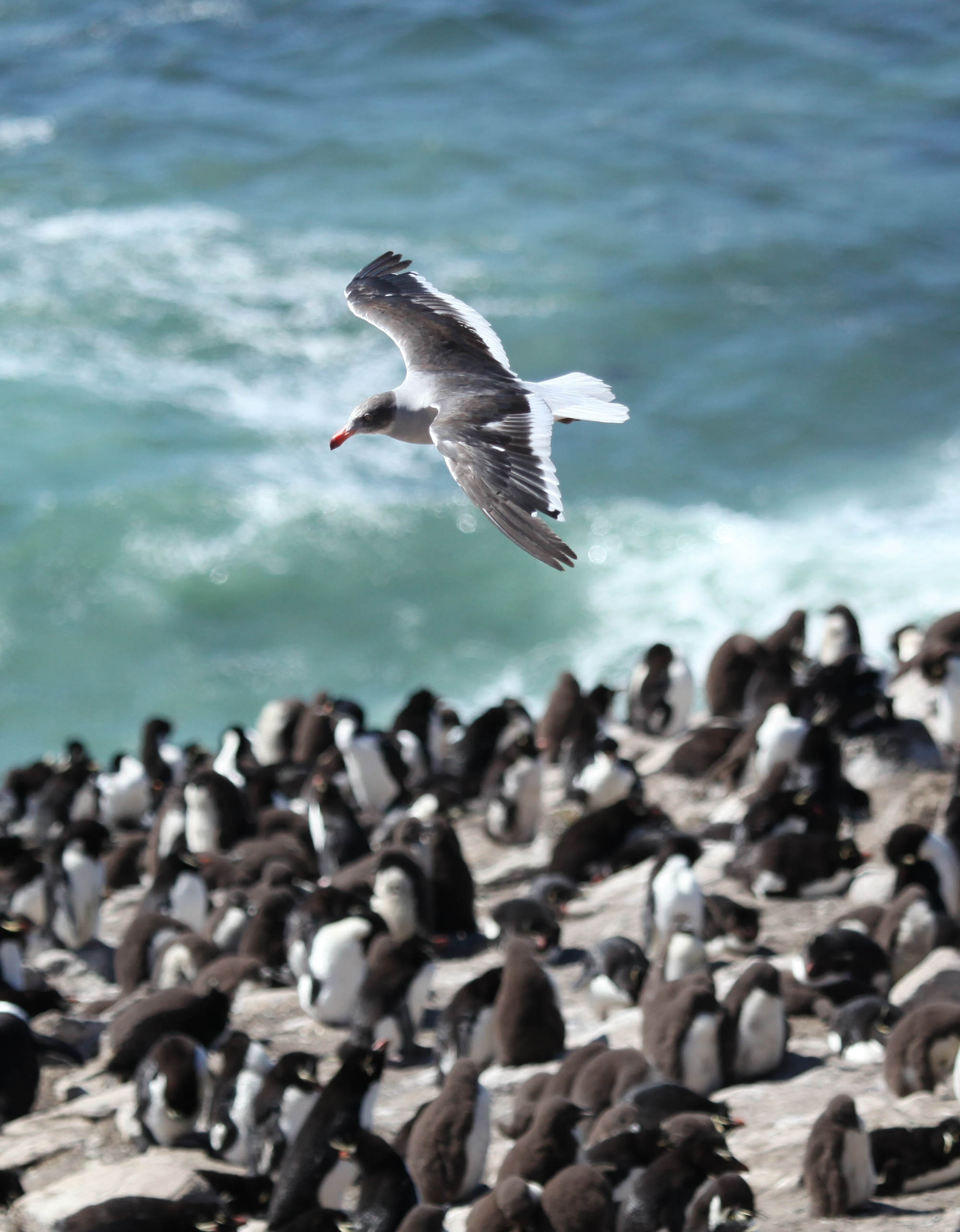 On Saunders Island in the Falkland Islands.